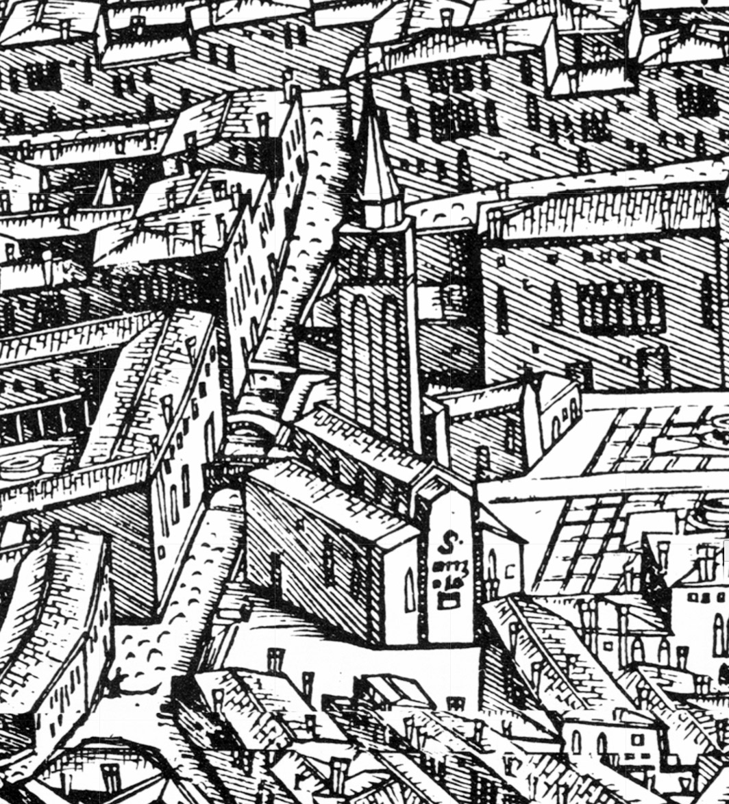 Jacopo de' Barbari (Venetian, c. 1460/1470 - 1516 or before), View of Venice [detail], San Michele Arcangelo church, 1500, woodcut on two sheets pasted together, Rosenwald Collection 1950.1.14